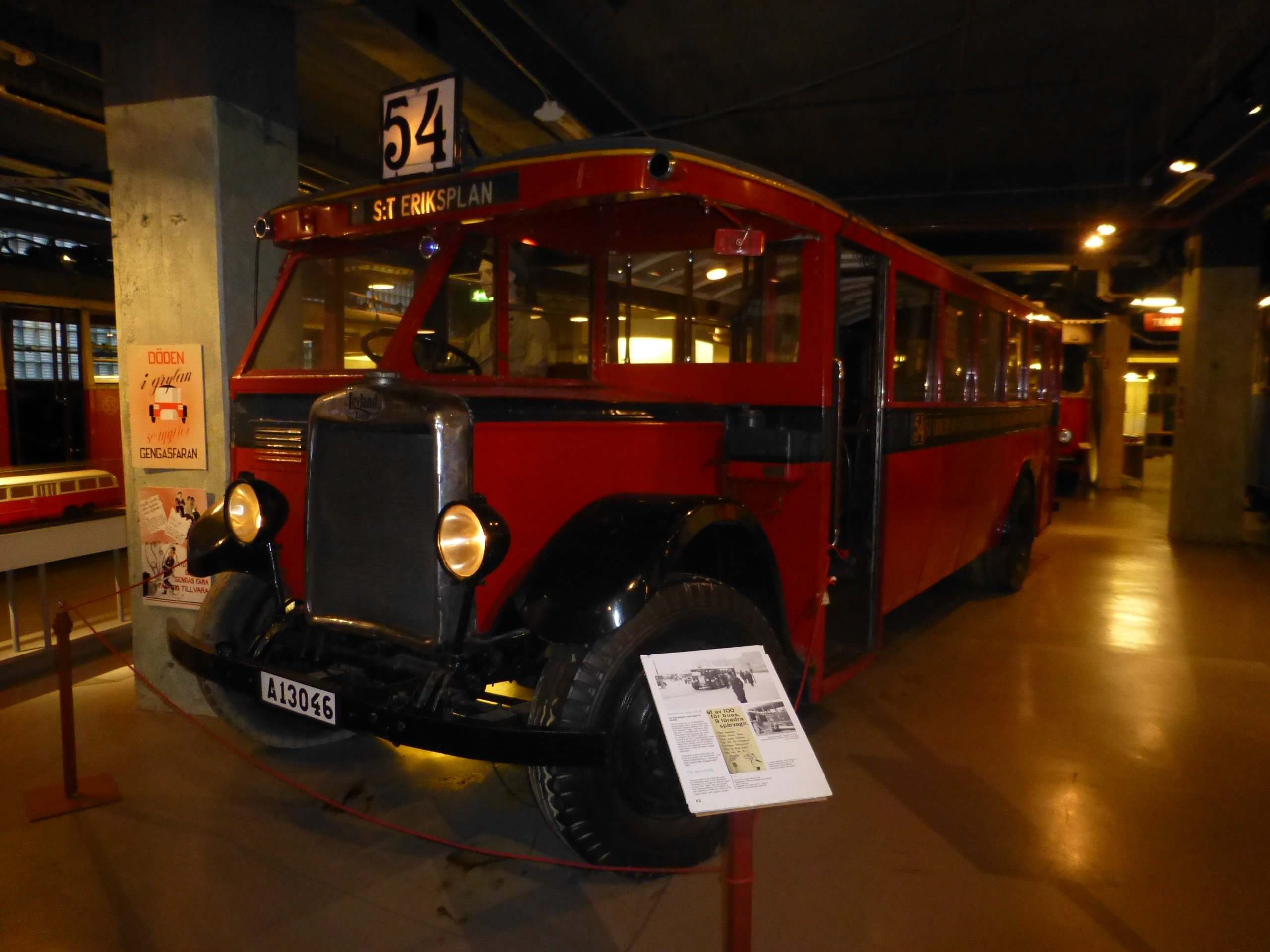 SS Bus 16068 from Stockholm from 1928 at Spårvägsmuseet in Stockholm.